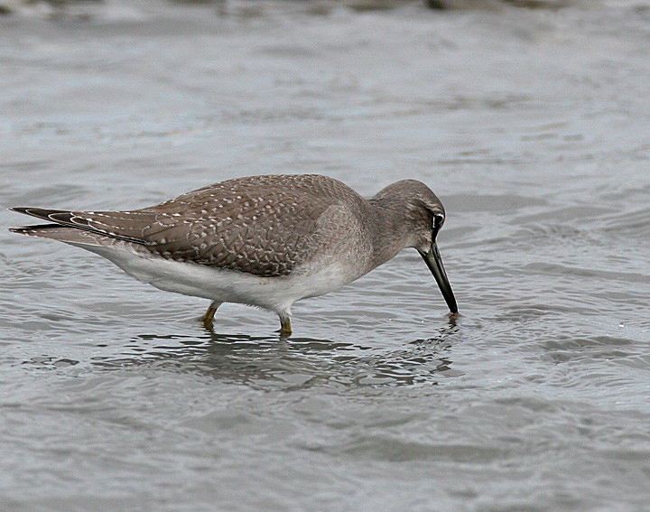 Tringa brevipes, Taitung, China.